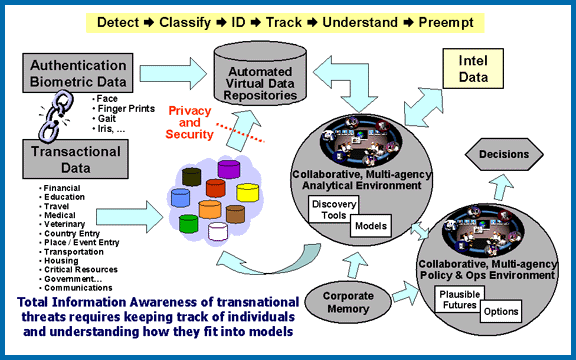 Diagram of Total Information Awareness system designed by the Information Awareness Office